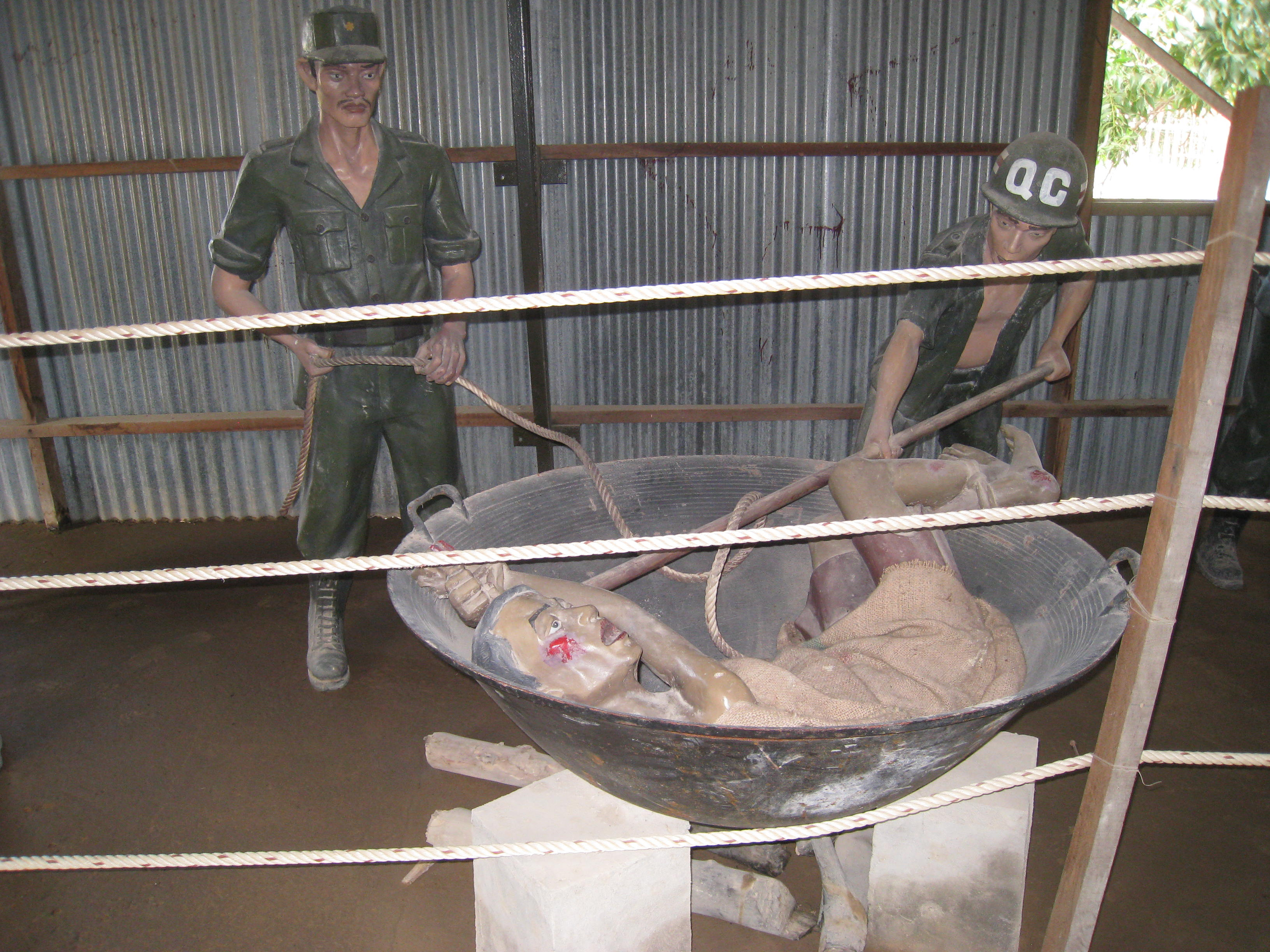 Modelsof boiling the communist POW in the Phu Quoc Prison, Phu Quoc Island, Vietnam